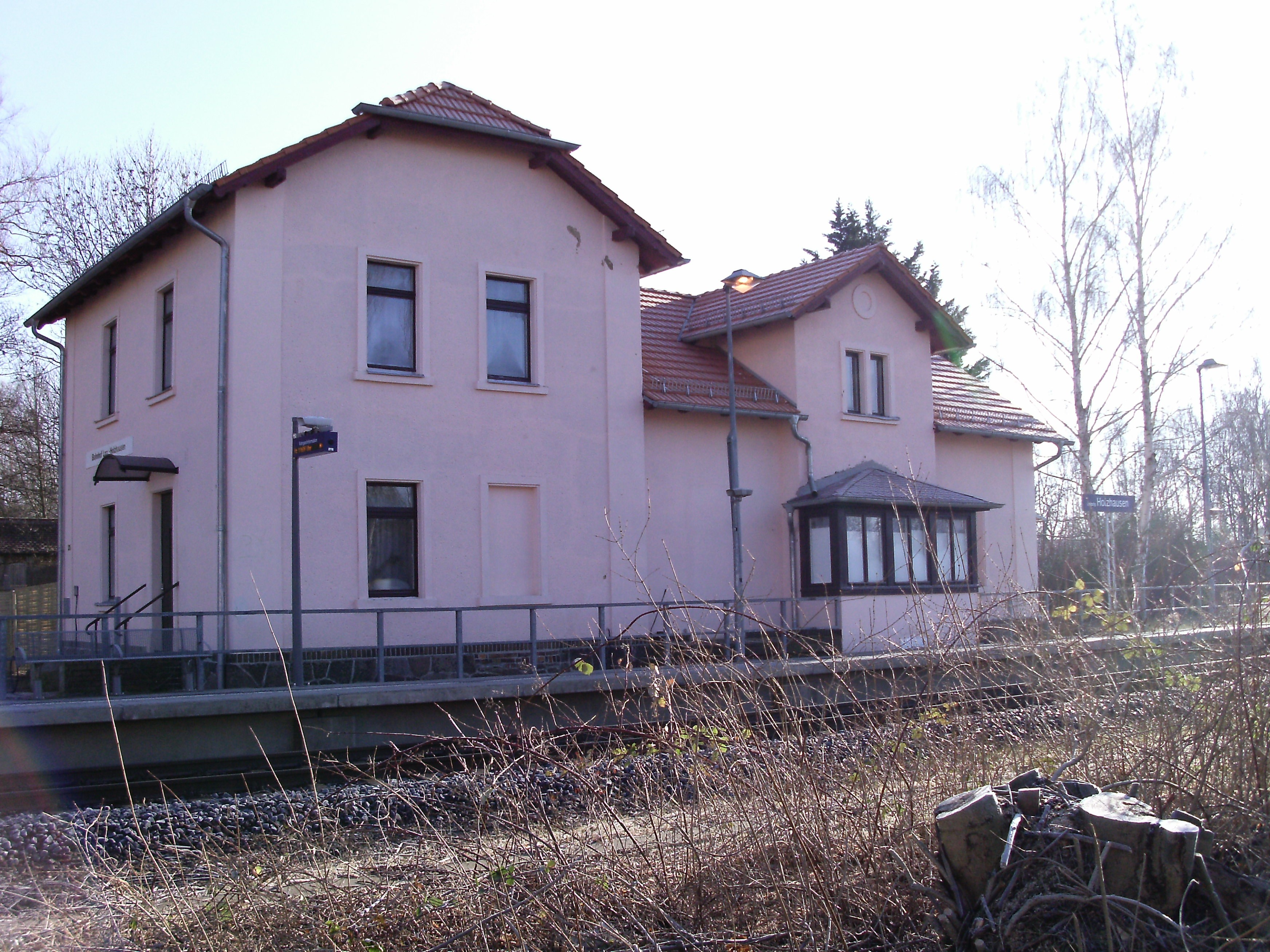 Leipzig-Holzhausen train station at the Leipzig-Bad Lausick-Geithain railway line